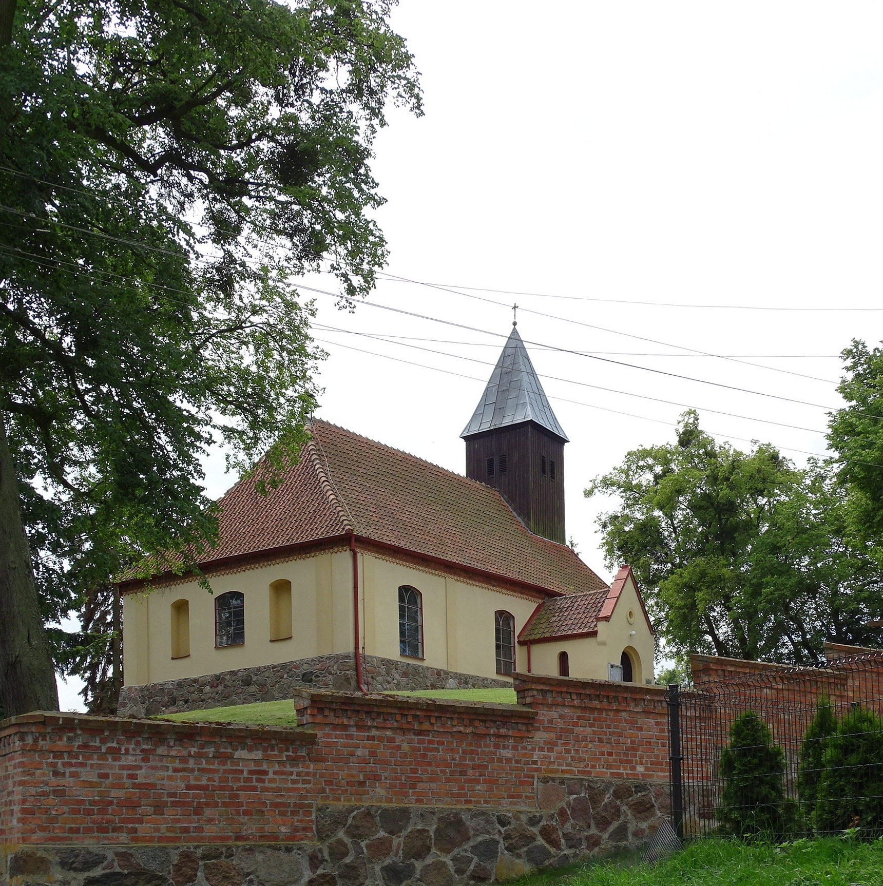 Tymawa, Pomerania, Poland. Church of Saint Michael from the XVII century.